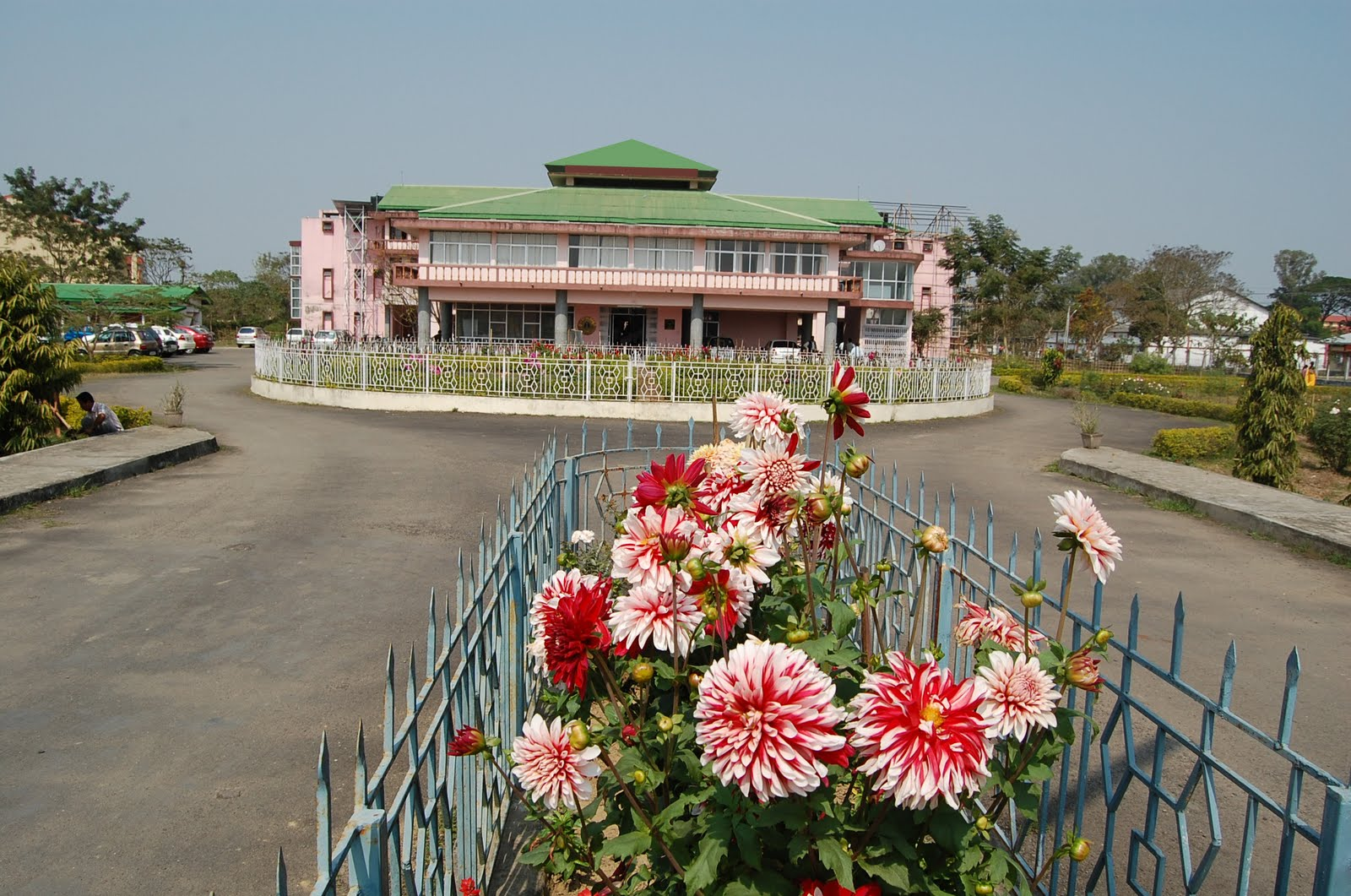 Dibrugarh University